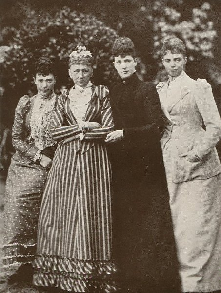 The Empress Dagmar of Russia, The Queen Louise of Denmark, The Queen-Empress Alexandra of Great Britain, The Crown Princess Thyra of Hannover